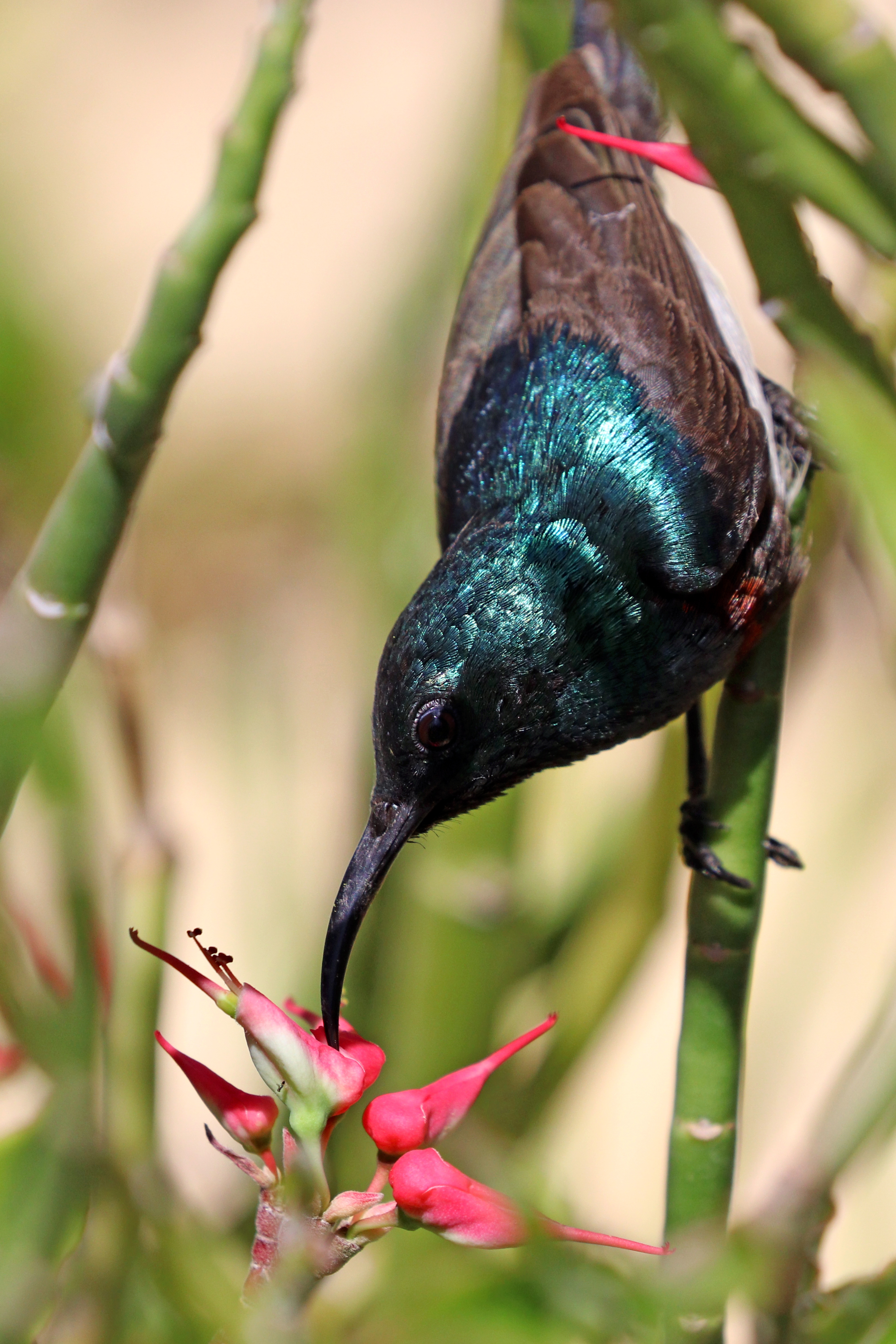 Souimanga sunbird (Cinnyris sovimanga apolis) male, Toliara, Madagascar